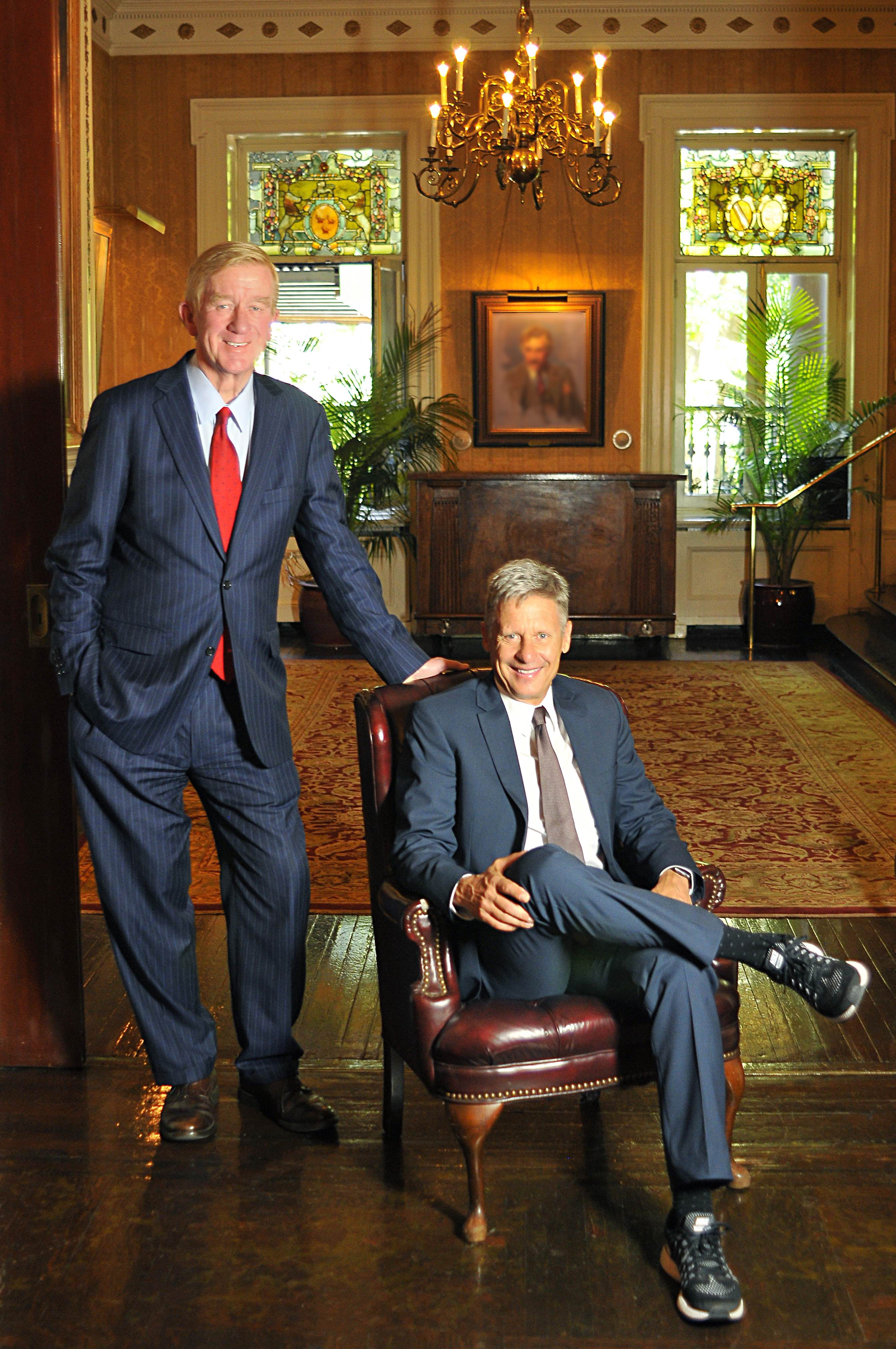 Gary Johnson and William Weld taking a campaign image inside of a house